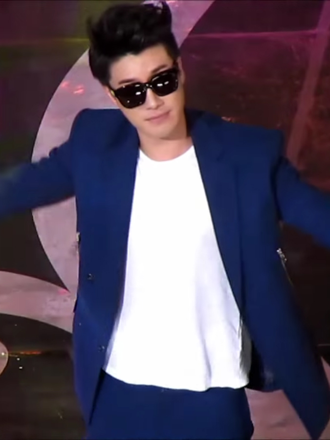 San E performing "What's Wrong with Me (나 왜이래)" at the SBS Seoul International Drama Awards on September 4, 2014.